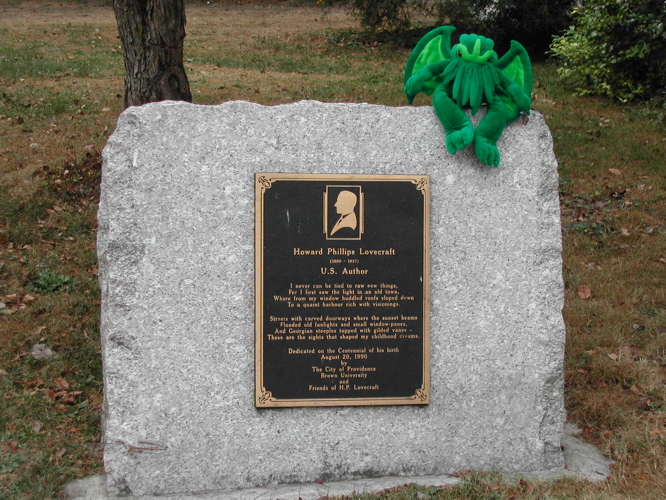 "Plush-toy Cthulhu pays homage to his creator, H. P. Lovecraft" at H.P. Lovecraft Memorial Plaque, Providence, Rhode Island